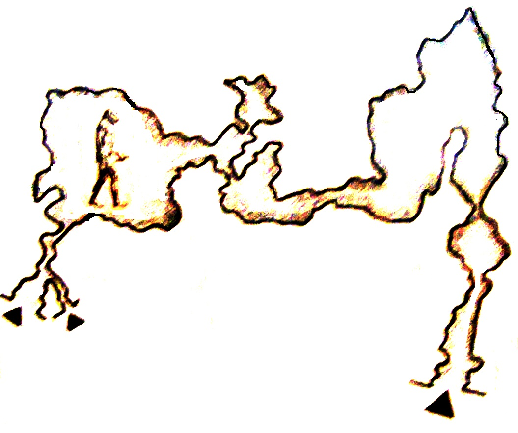 Plan of Azykh cave